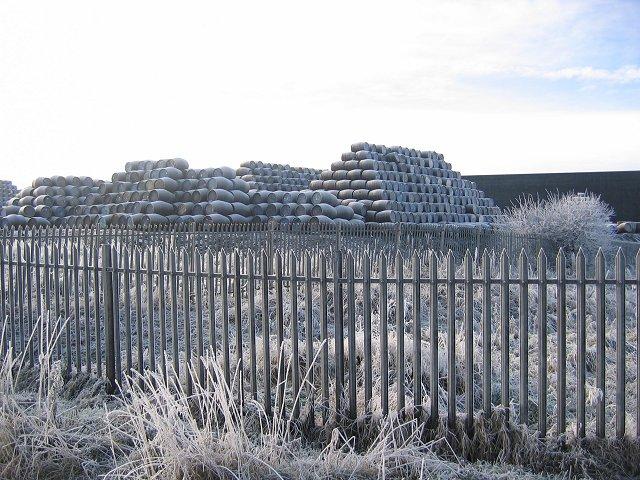 Bonded warehouse, Addiewell. Whisky bond for the North British Distillery of Gorgie, Edinburgh. A lot of the grain whisky for many famous blends passes through here, eg, Famous Grouse and Bells.